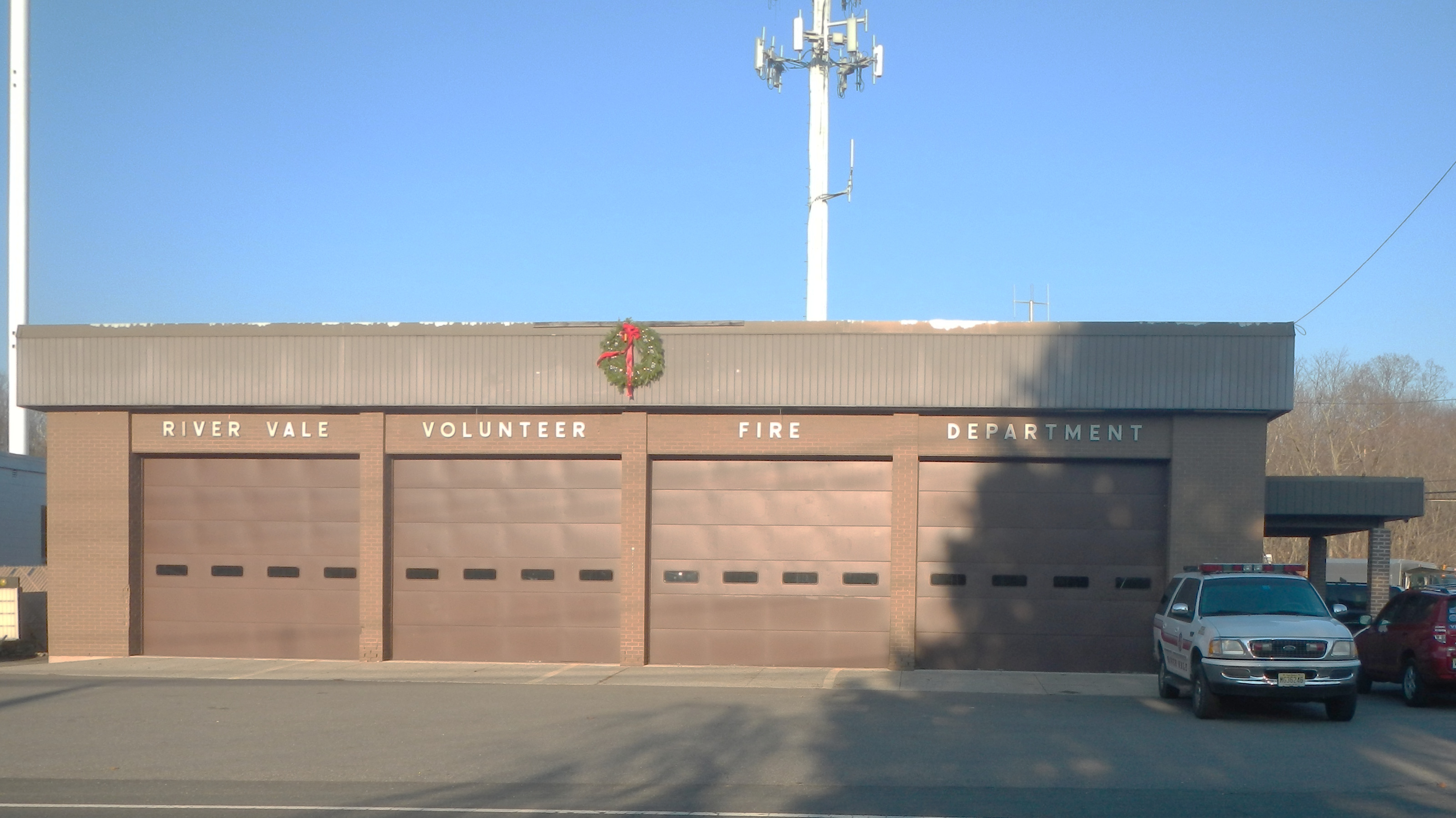 Looking northeast from Rivervale Road at firehouse on a sunny late afternoon.